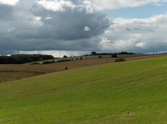 Wether Down. Looking across Ridgeway Down towards Betterton Down. The hedgerow below the horizon is a just beyond the western boundary of the grid-square.